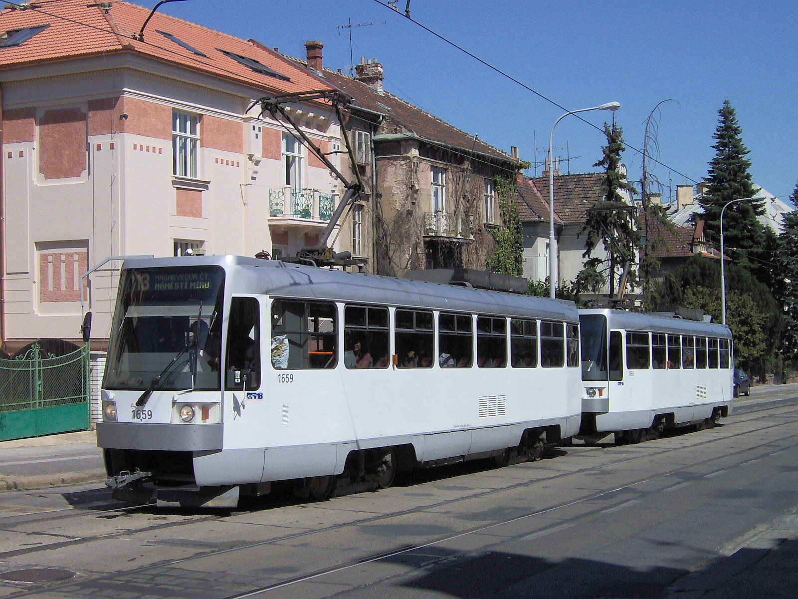 Tatra T3R trams in Brno, Czech Republic